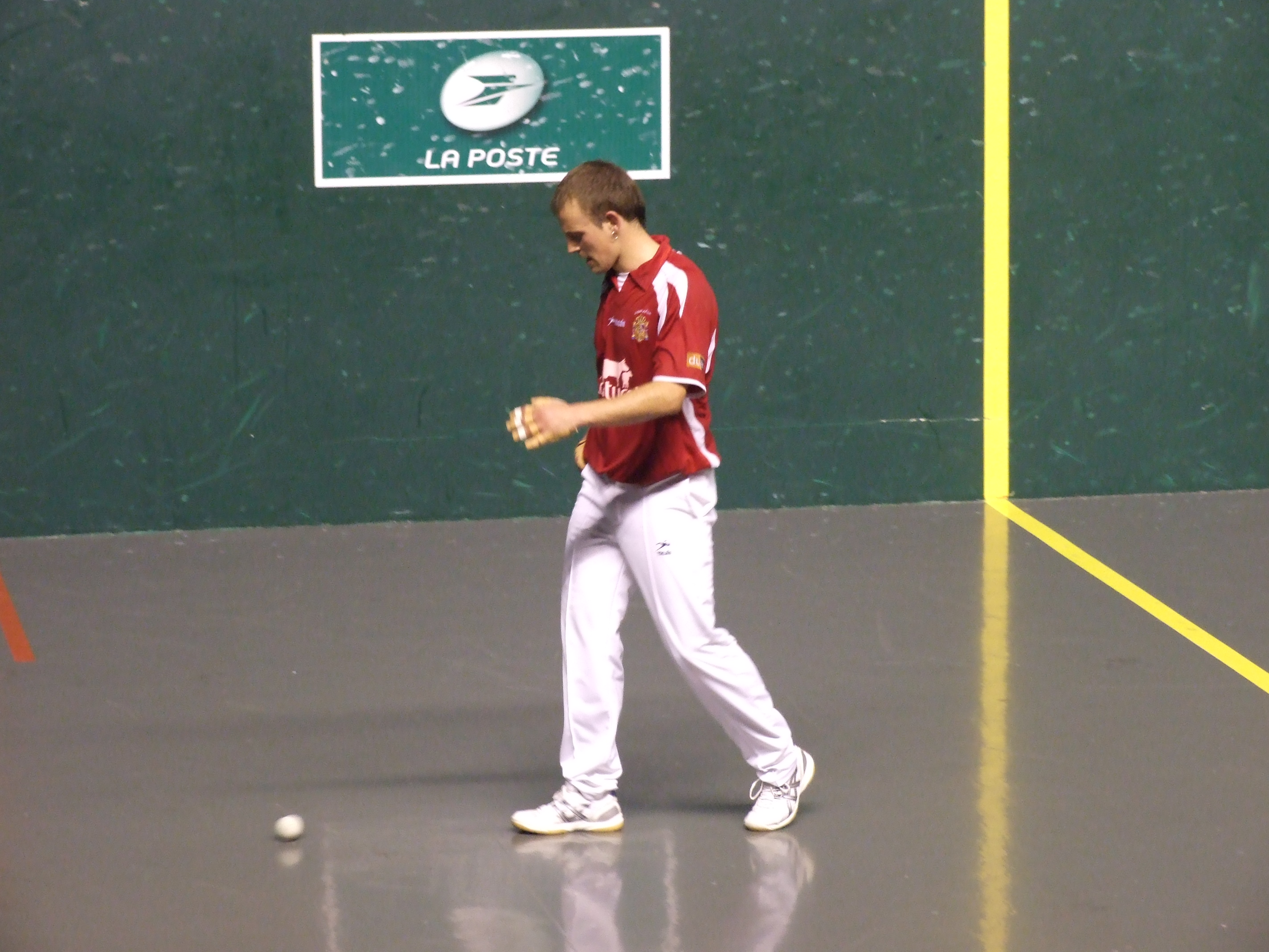 10-10-2010, Campeonato del Mundo de Pelota Vasca en Pau, mano individual en frontón de 36 metros. Onsalo, final.